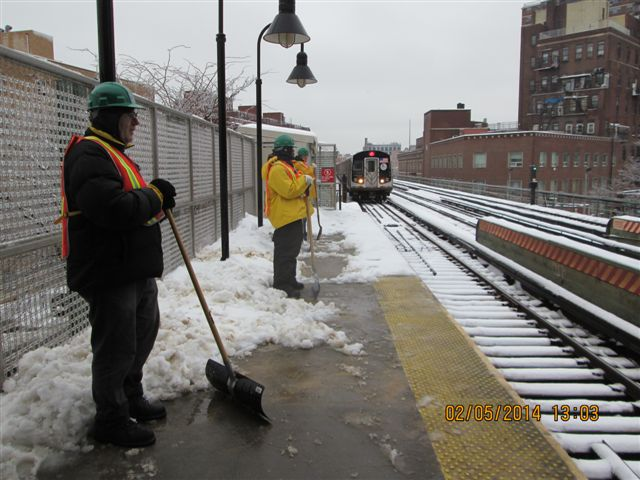 Crews remove snow at Lorimer St. M Station in Brooklyduring snow / ice storm on February 5, 2014. Photo: MTA / New York City Transit